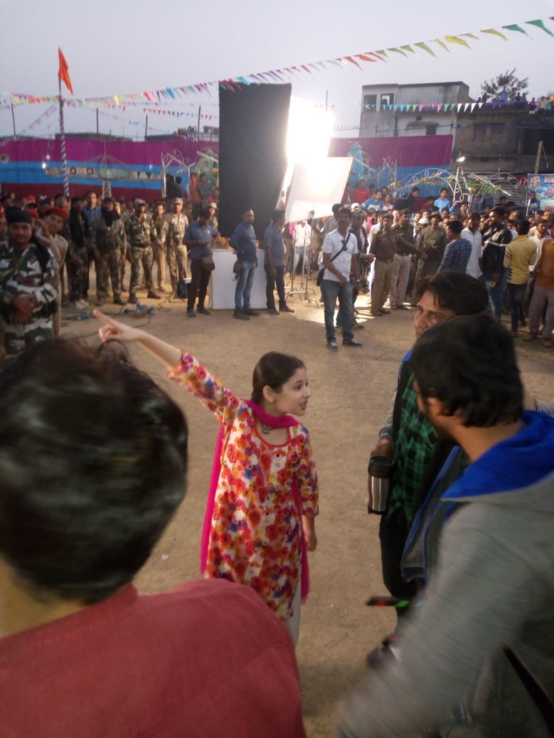 Harshaali nastik